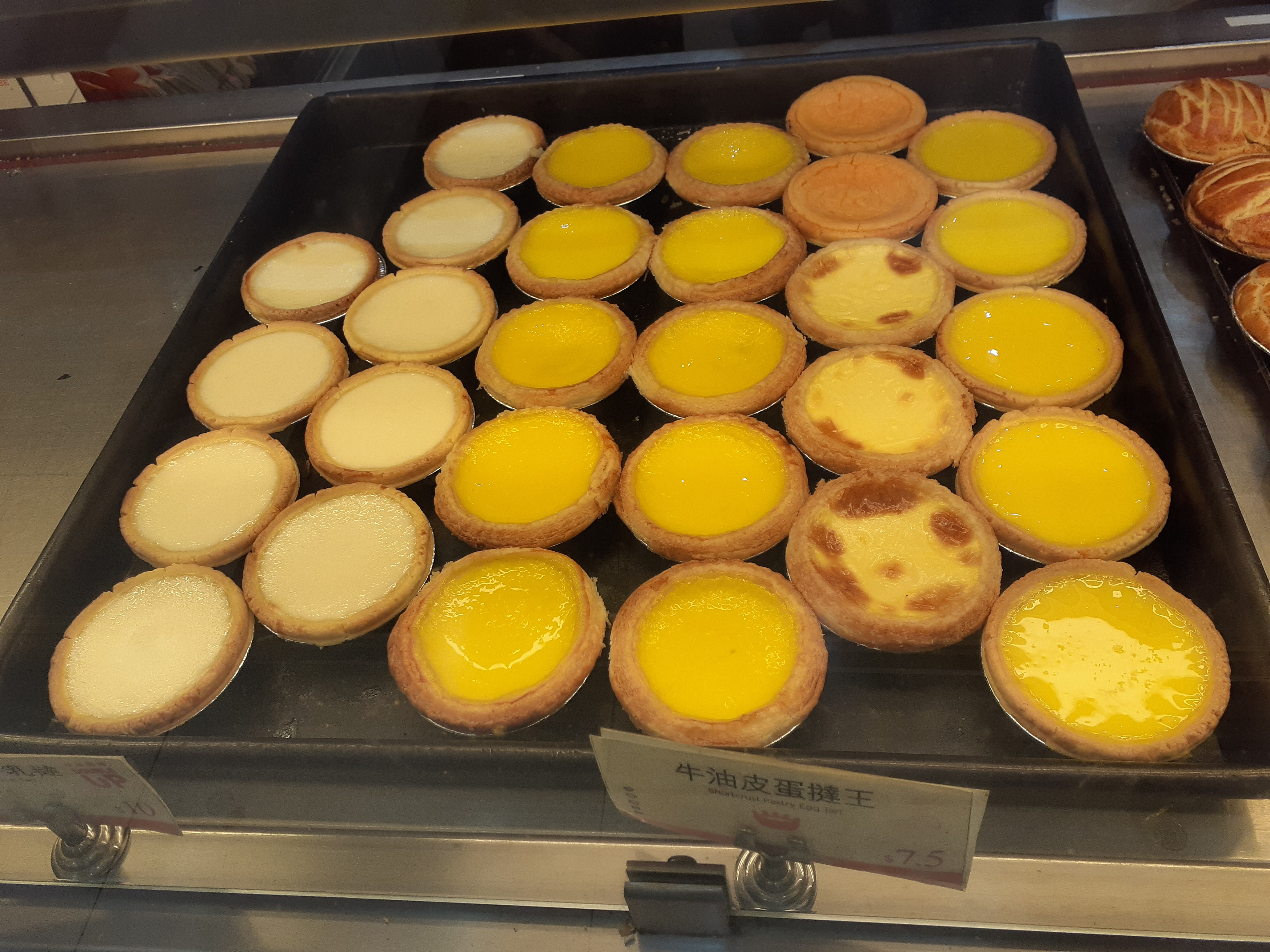 HK SSP 長沙灣 Cheung Sha Wan 深盛路 Sham Shing Road 泓景滙商場 Banyan Mall shop in December 2019